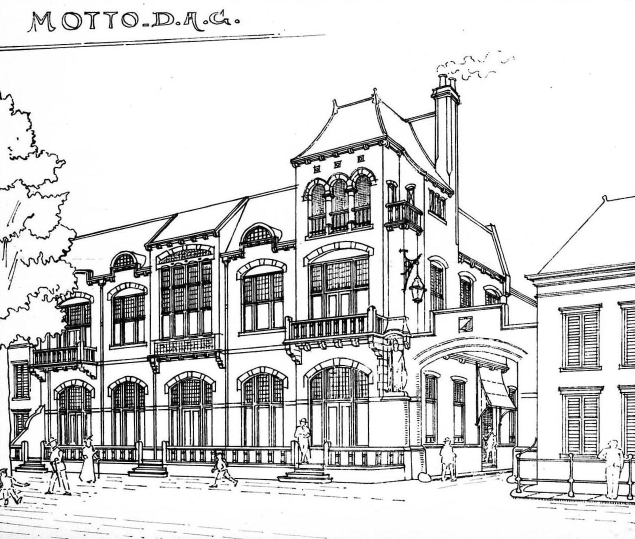 Competition design for a Student Society, Utrecht.